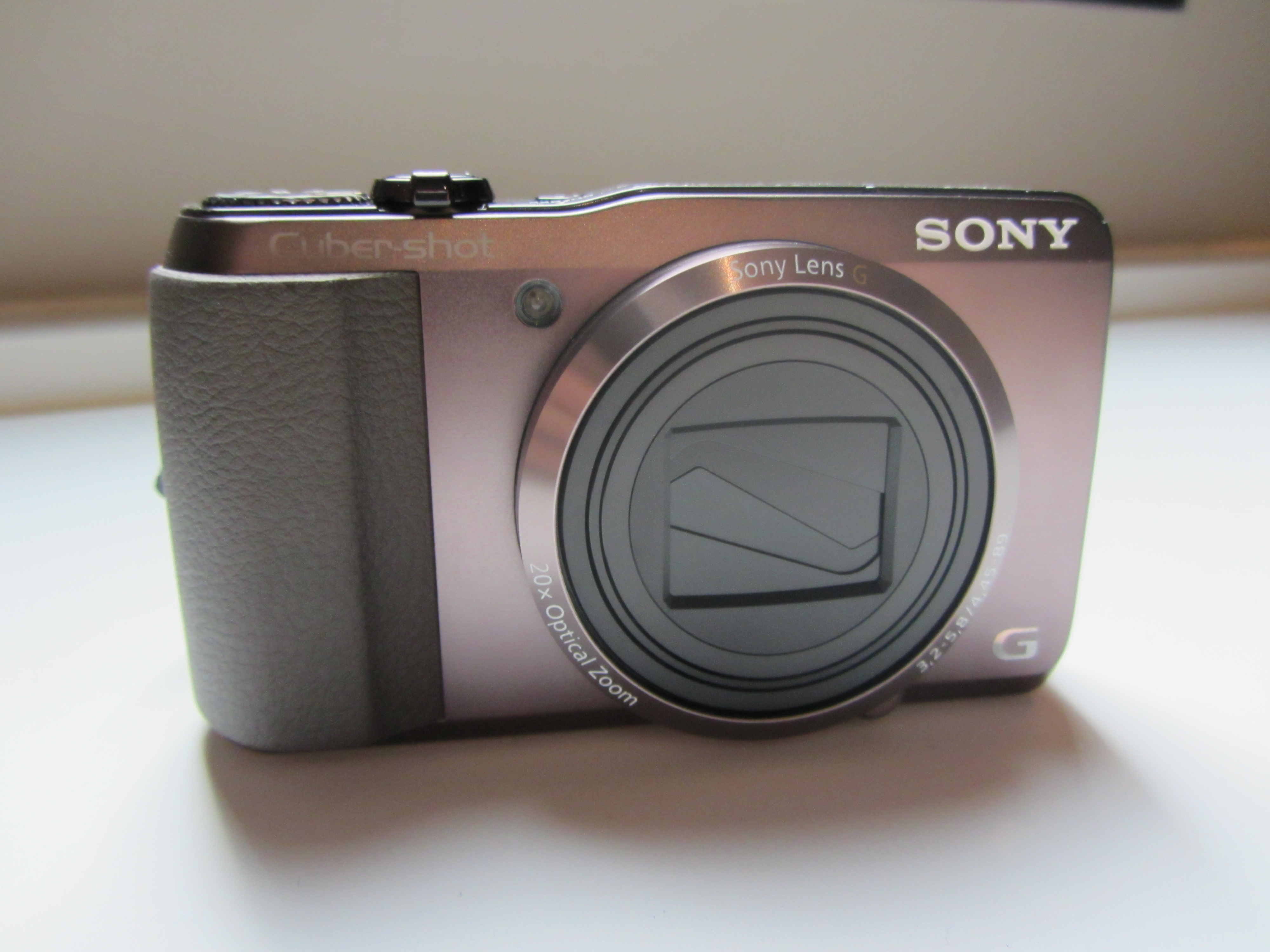 Sony DSC-HX20V